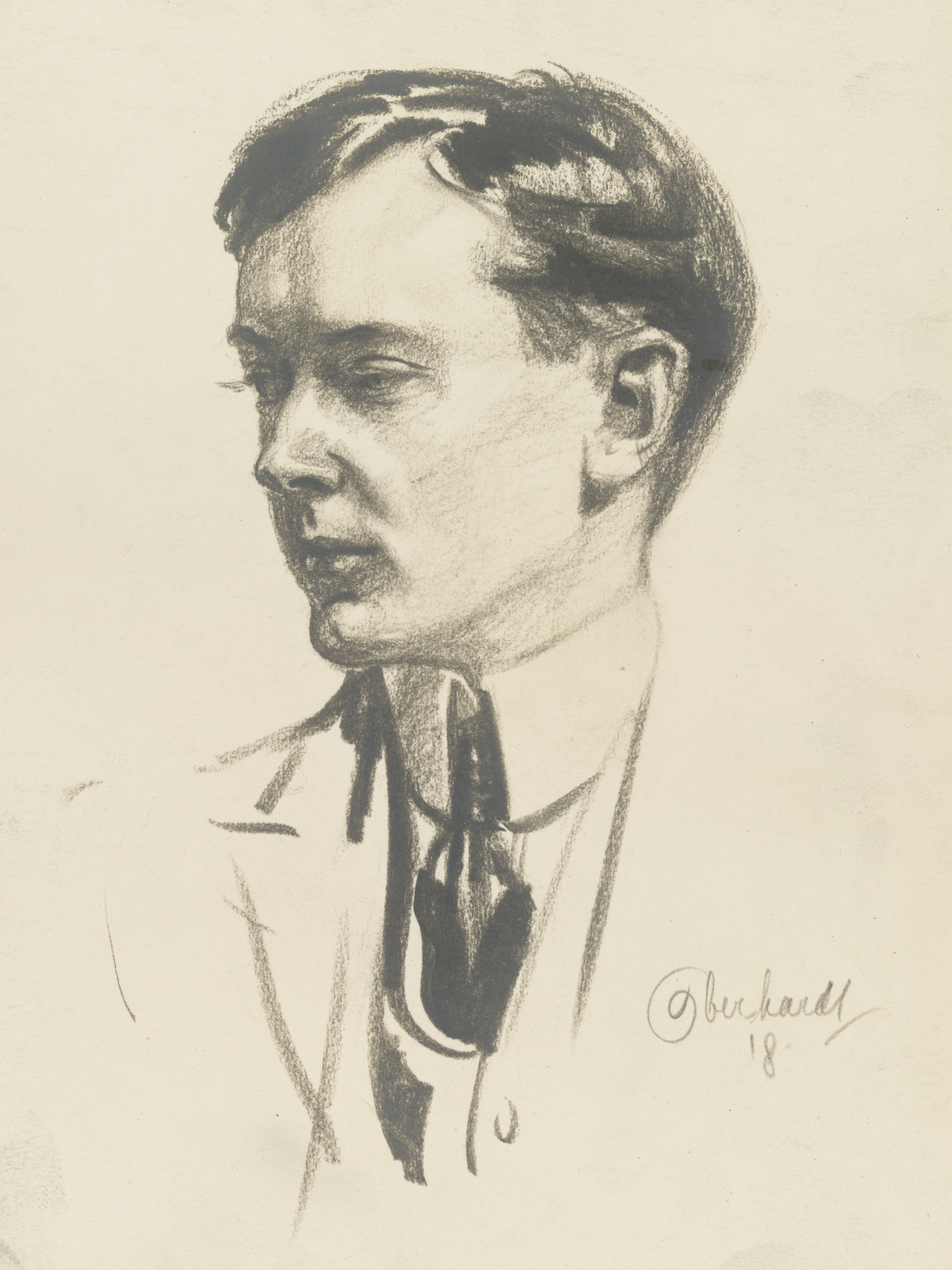 Scope and content: Photographer: C.P.I.